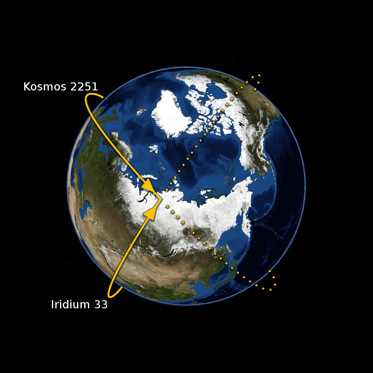 Collision between Iridium 33 and Kosmos 2251. Globe by NASA Worldwind in the public domain.